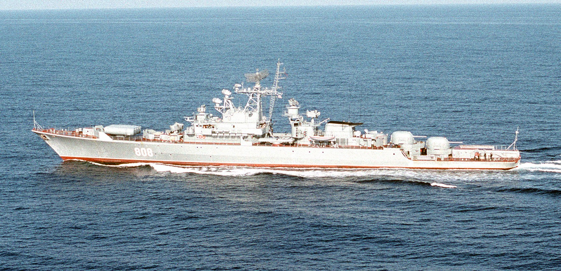 A port beam view of the Soviet Krivak II class guided missile frigate PYTLIVYY underway south of Italy.